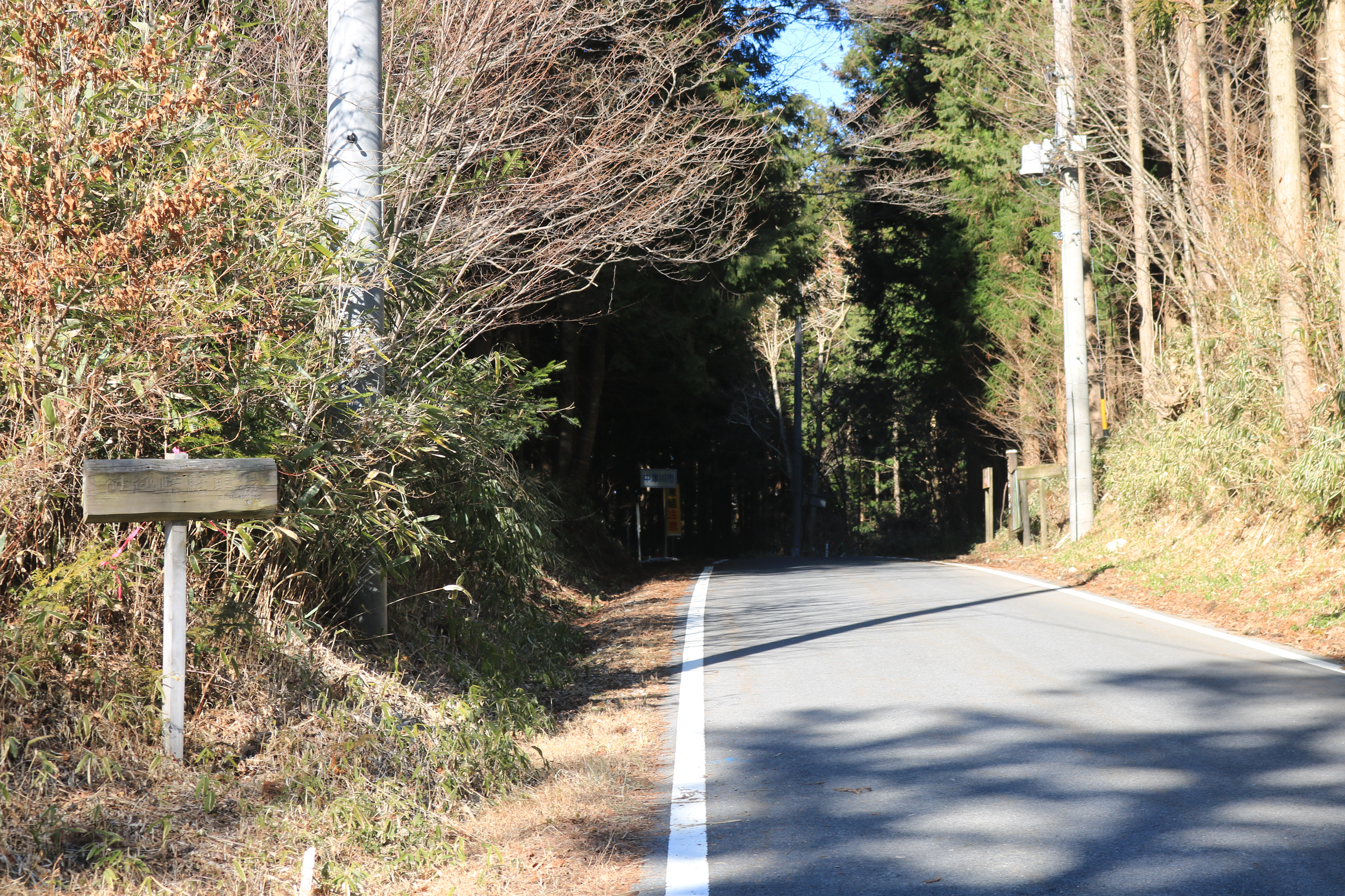 Kirikoshi Pass of Gifu Prefectural Road Route 70 in Kurokawa, Shirakawa town, Gifu Prefecture, Japan.